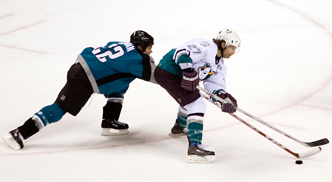 Scott Hannan of the San Jose Sharks and Scott Niedermayer of the Mighty Ducks of Anaheim battle for the puck in a game on April 15, 2006.